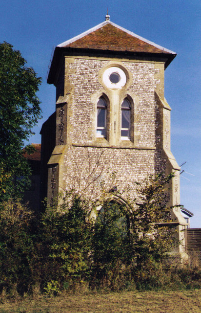 Foxcott Chapel Grade 2 listed building erected in 1840. Only the tower remains and is now part of a private residence.